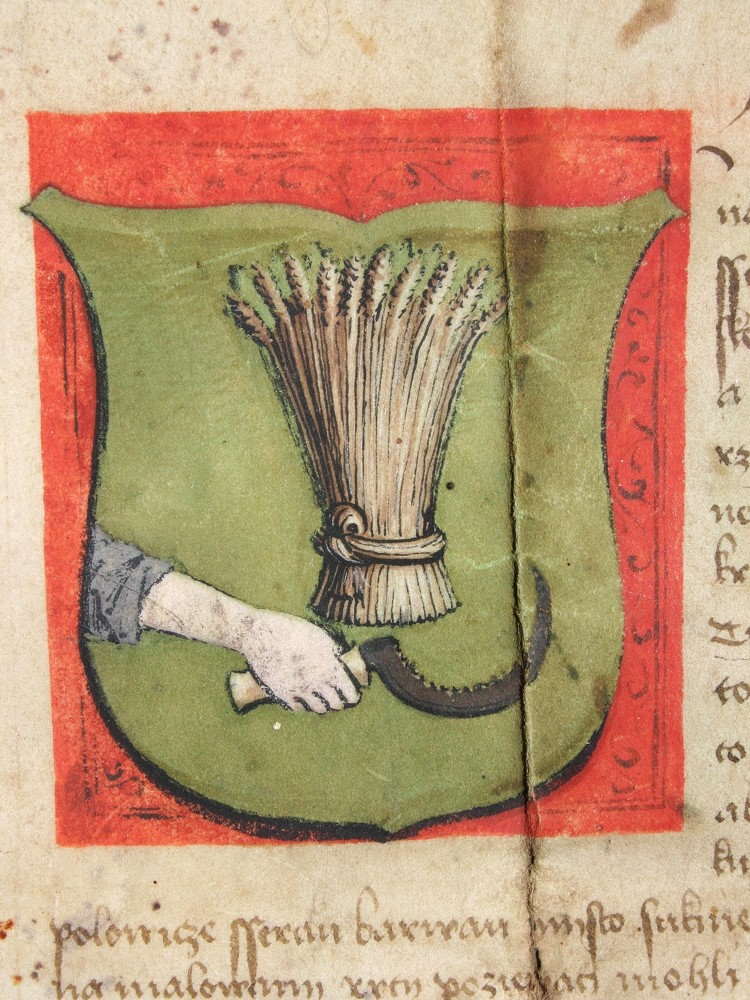 Coat of arms of Rouchovany, Třebíč District, Czech Republic.